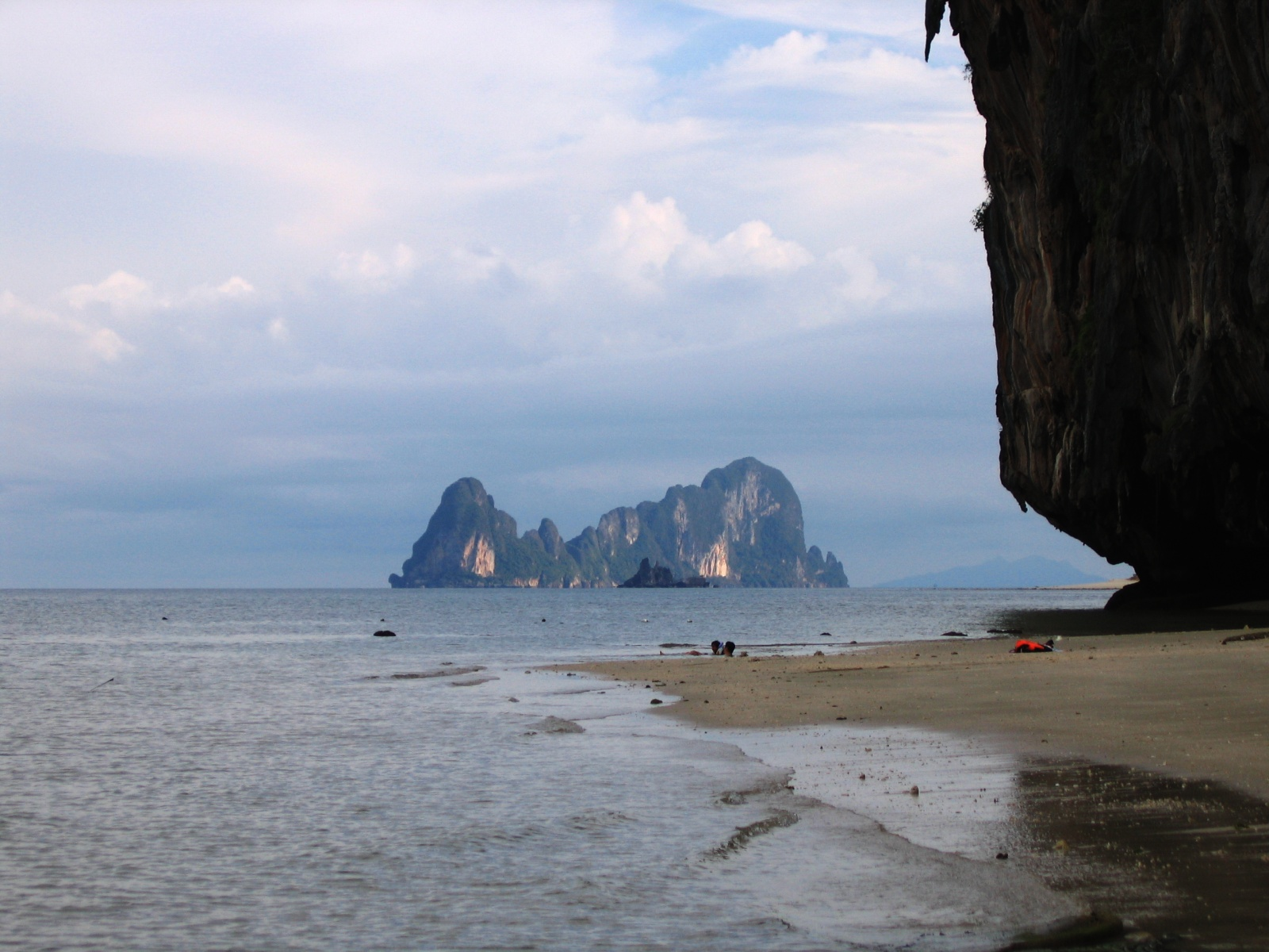 Ko Phetra (เภตรา) as seen from Ko Lao Liang Nong (เหลาเหลียงน้อง, หลาวเหลียงน้อง) or Ko Lao Liang Nuea (เหลาเหลียงเหนือ, หลาวเหลียงเหนือ), Amphoe Palian, Trang Province, Thailand. Both islands, part of Mu Ko Phetra Marine National Park, are under bird nest concession and visiting may be limited to certain months with calm sea.